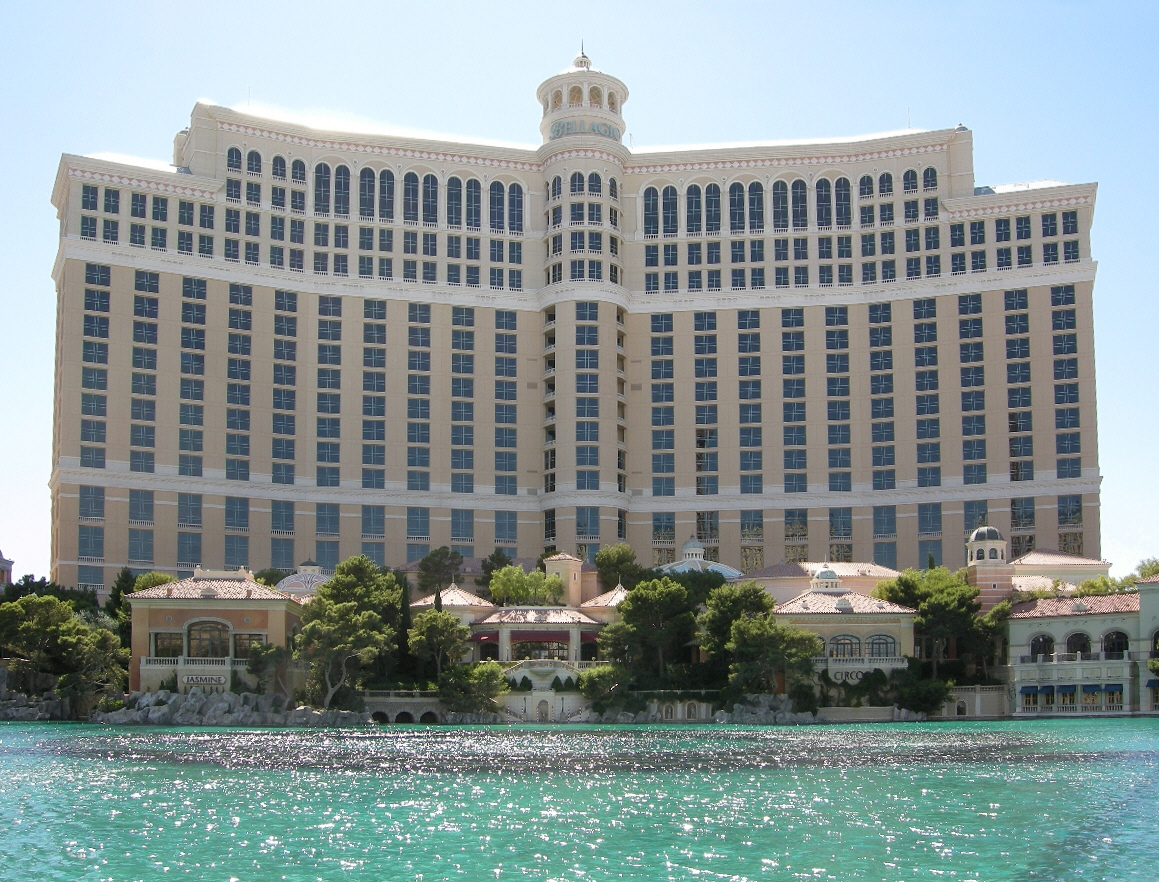 Bellagio Hotel and Casino in 2009.